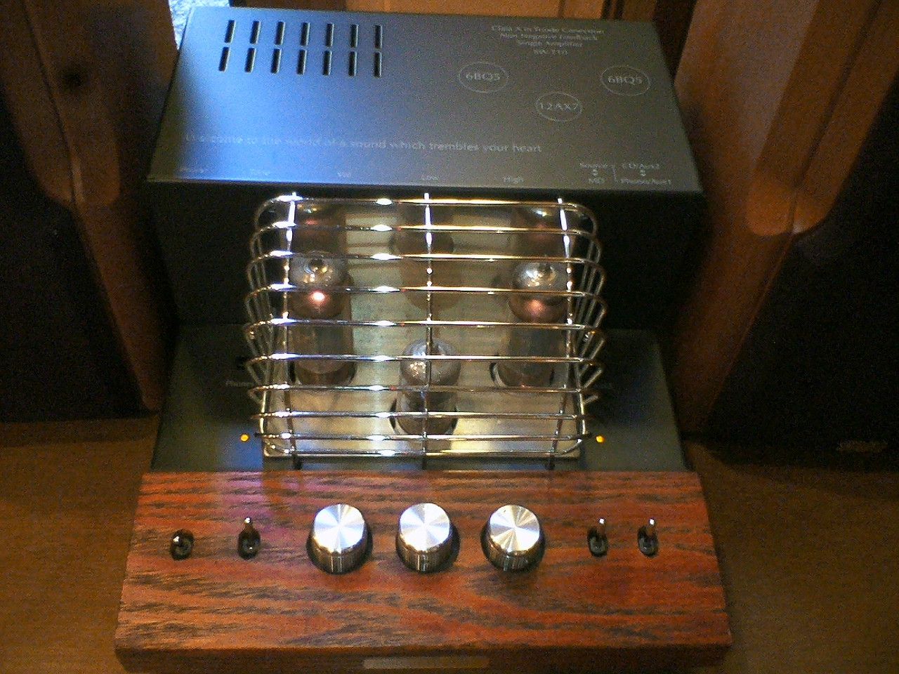 SOUND WARRIOR SW-T10 Vacuum Tube Amplifier